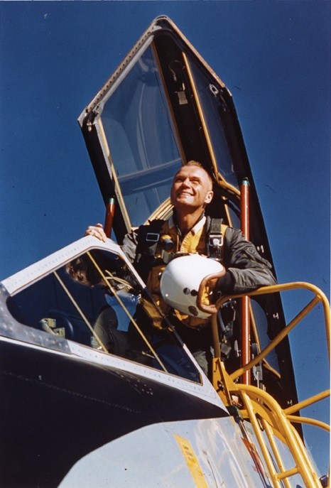 John Glenn sitting in the cockpit of a jet aircraft at the U.S. Navy Test Station at Patuxent River, Maryland, 1954.